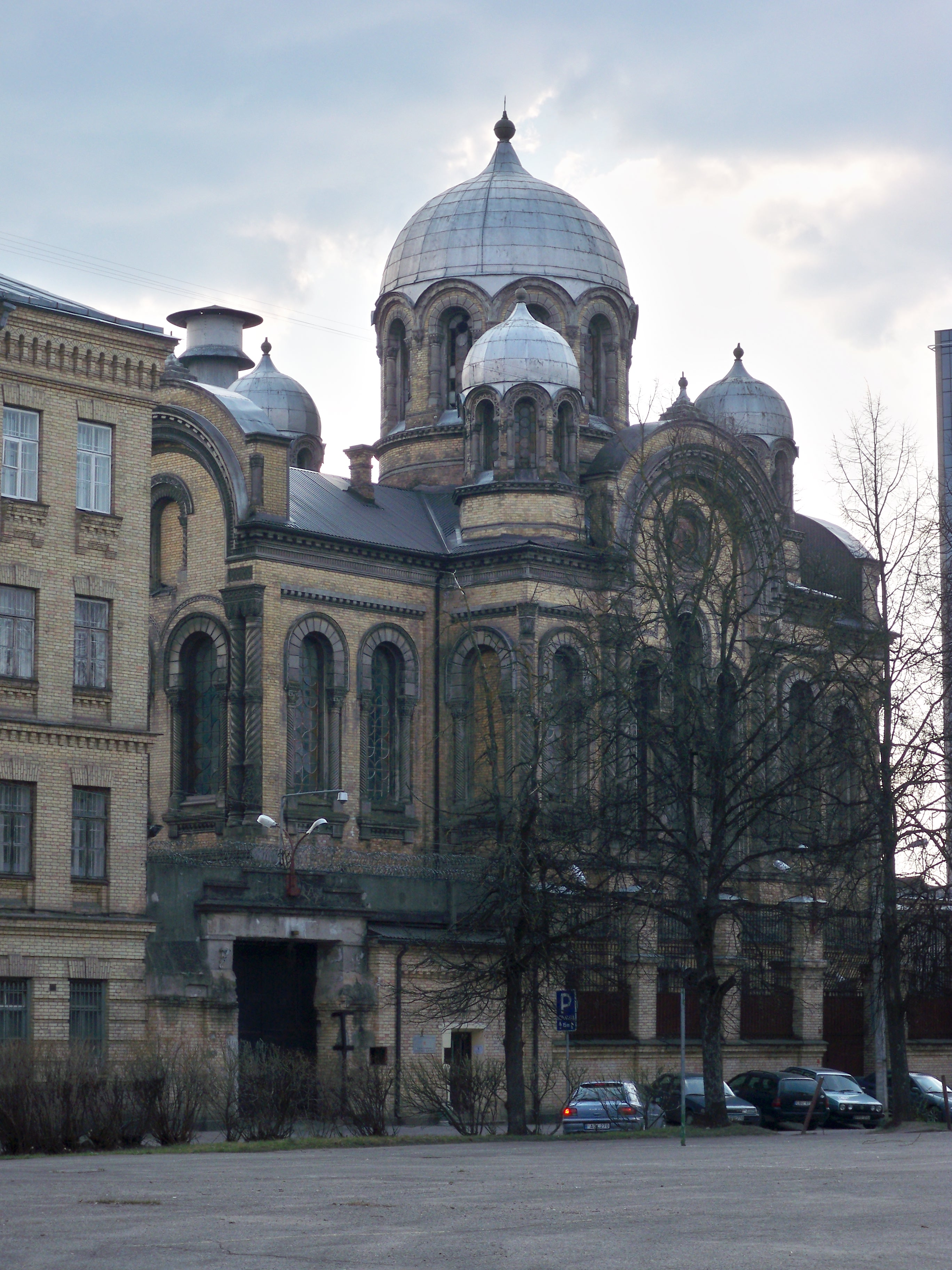 Orthodox Church of St. Nicholas Lukiški prison